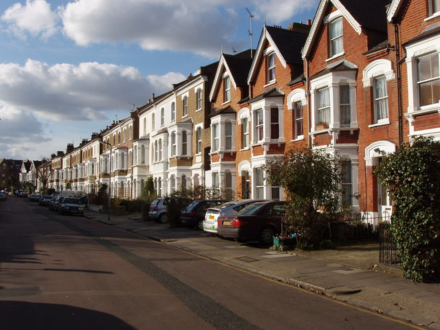 Arlington Gardens, Chiswick View from the end near Turnham Green.